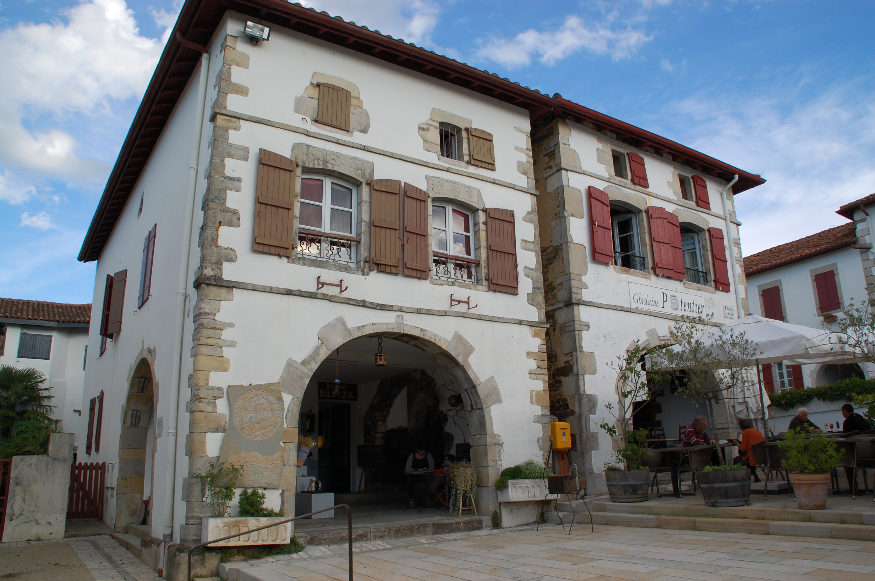 Place des arceaux (southward)